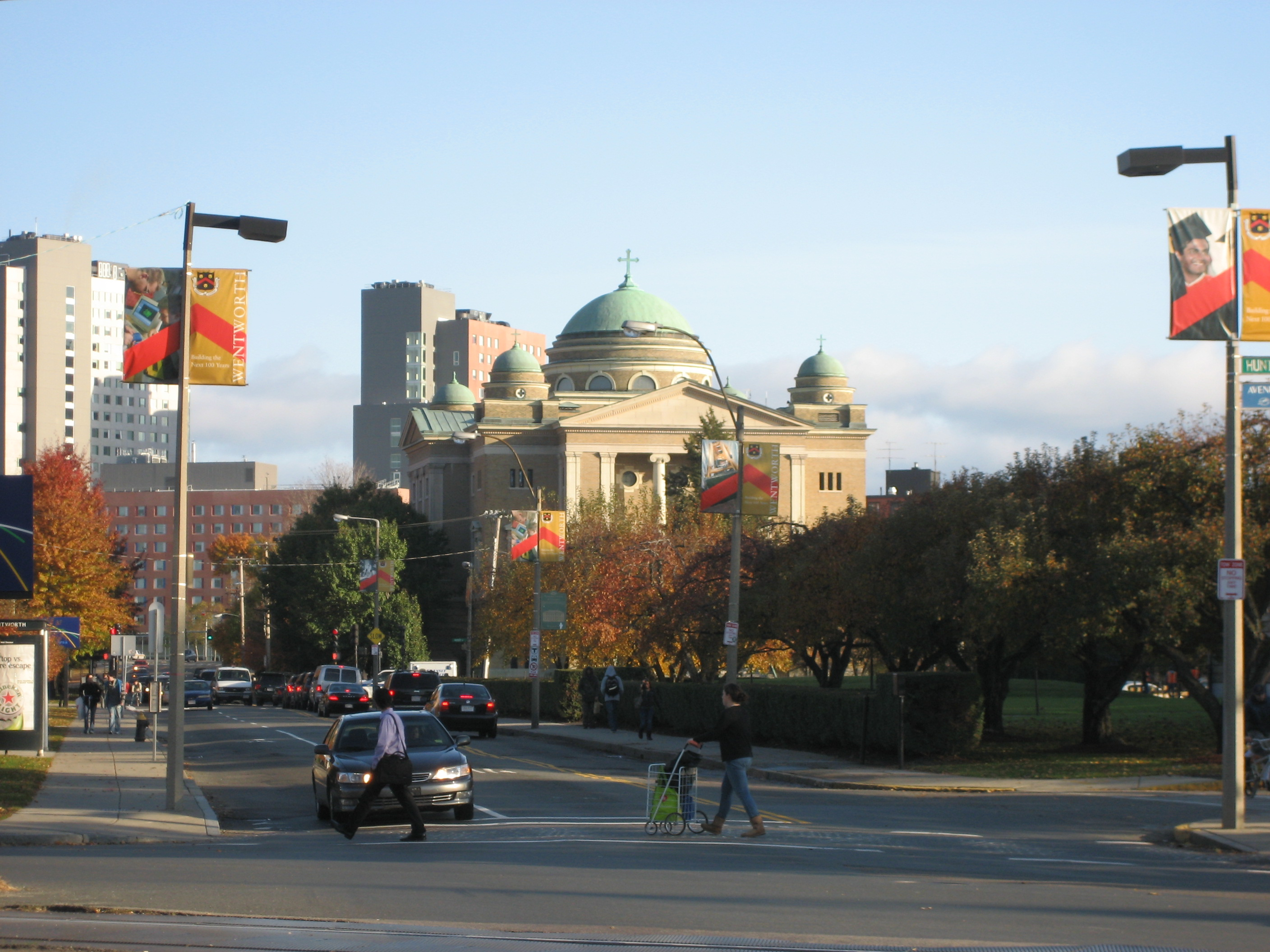 Annunciation Greek Orthodox Cathedral of New England located at Parker and Ruggles Streets in Boston.